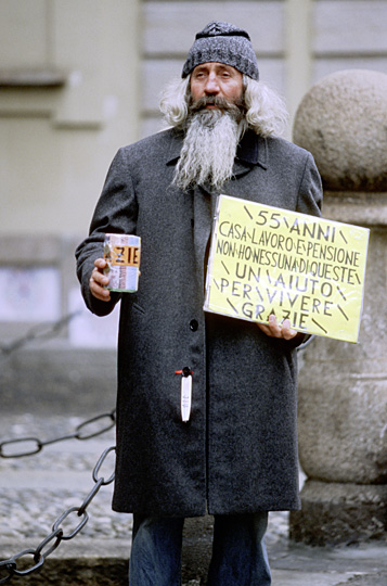 "55 years -- home, work, pension -- don't have any of these -- please help to survive"